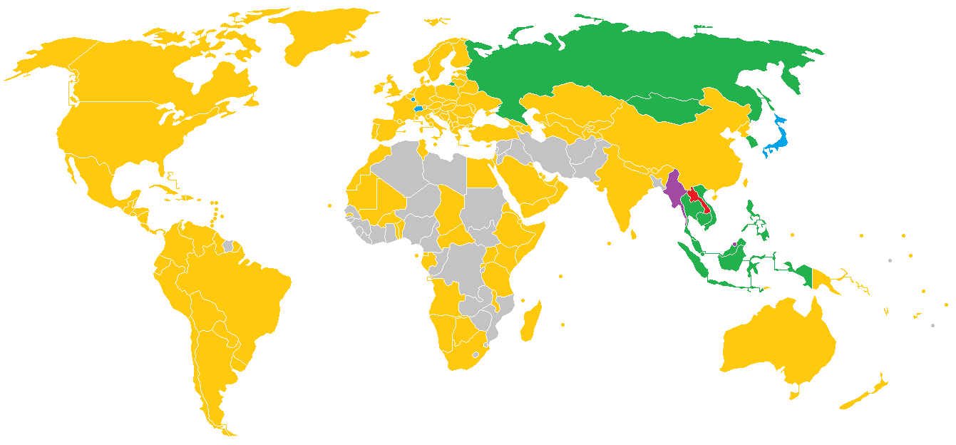 Visa policy of Laos Laos Visa-free (30 days) Visa-free (15 days) Visa-free (14 days) Visa on arrival (30 days) Visa or official approval required in advance